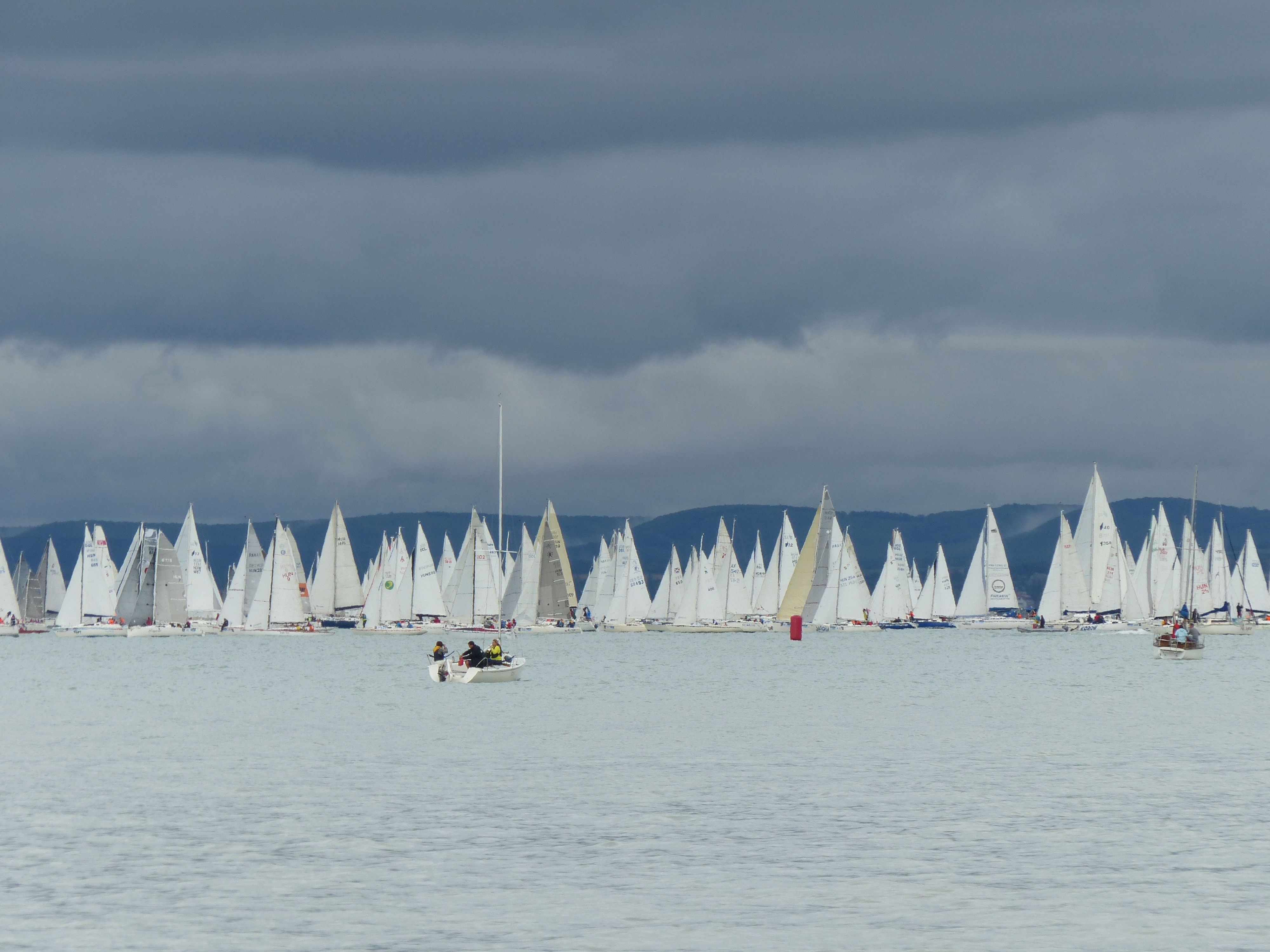 Kékszalag regatta, start. Balatonfüred, Hungary. Winner: Litkey Farkas. Taken on the 14th of July, 2016. 9.01 o'clock.